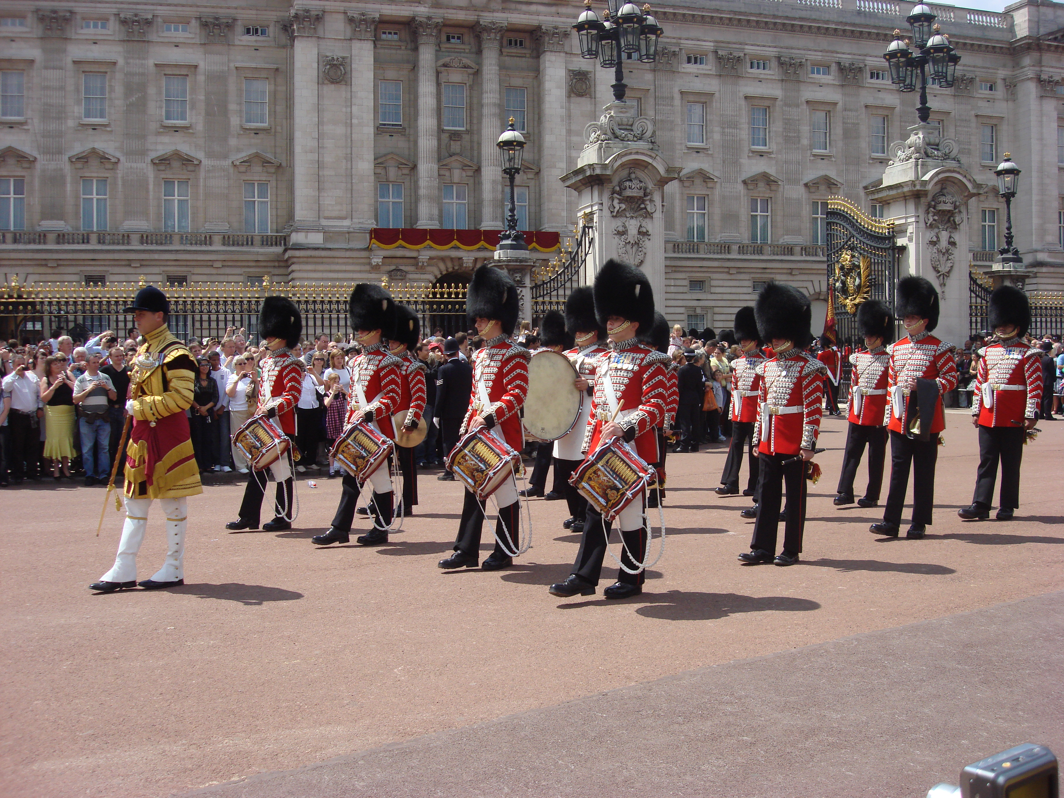 The Corps of Drums of the 1st Battalion Grenadier Guards at Trooping the Colour 2009